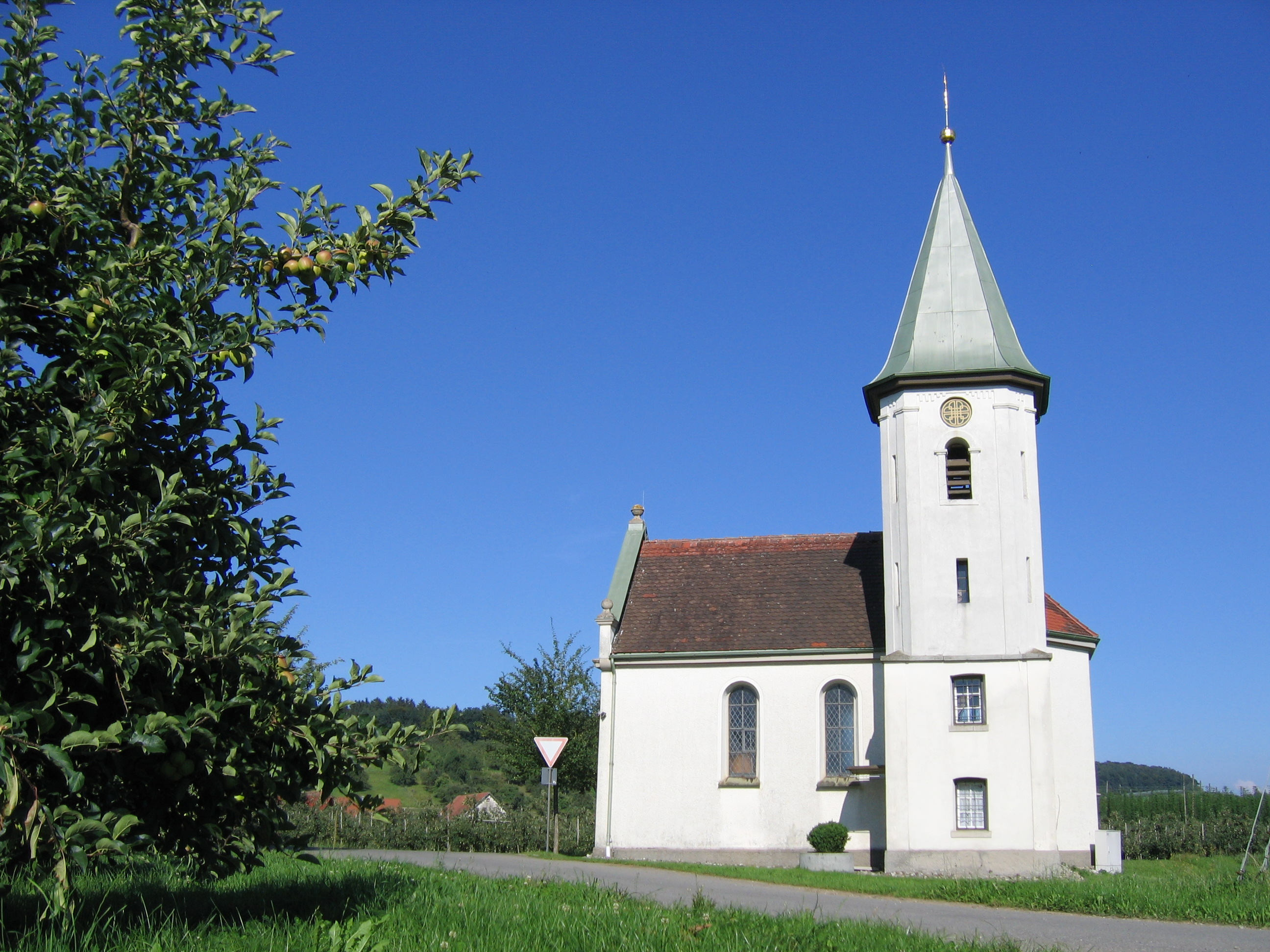 Germany - Baden-Württemberg - Bodenseekreis - Kressbronn am Bodensee: Sebastian chapel near Betznau